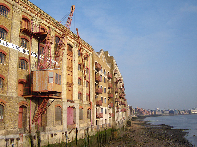 King Henry's Wharf, Wapping, Tower Hamlets, London. 6 January 2006. Photographer: Fin Fahey